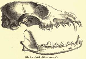 An illustration of an arctic fox skull